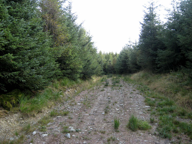 Forest ride, Dyfnant Forest Dyfnant Forest is one of only two Forestry Commission Forests in Wales where carriage driving is permitted without permit. A number of forest roads and rides are designated as carriage driving routes, including this one.